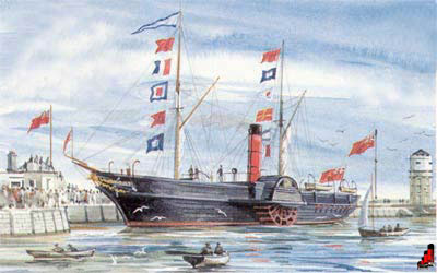 RMS Columbia, paddle steamer of the Cunard Line (Britannia Class) and recordbreaker (won the Blue Riband in 1841)